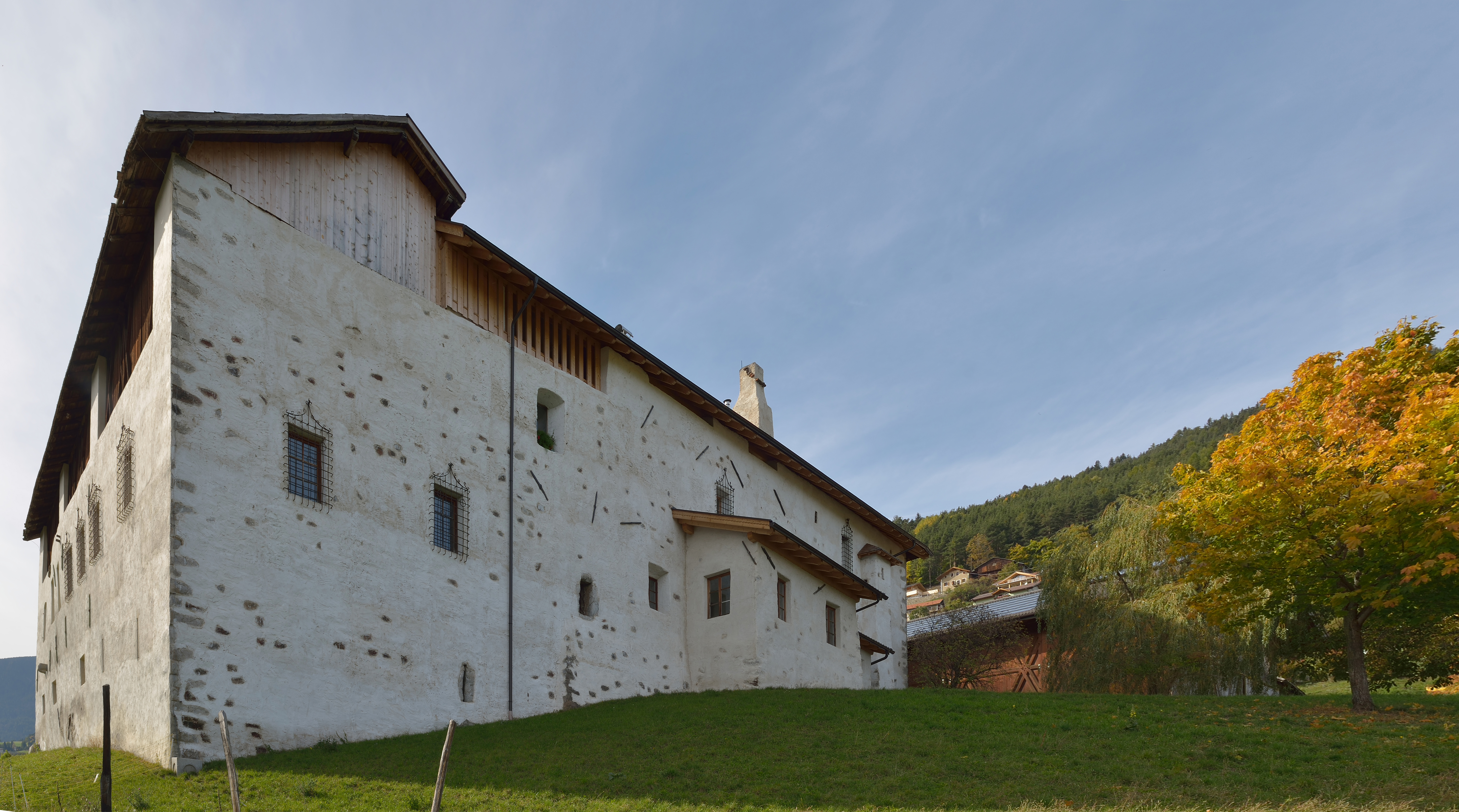 Manor "Gravetsch", eastern view, in Villanders